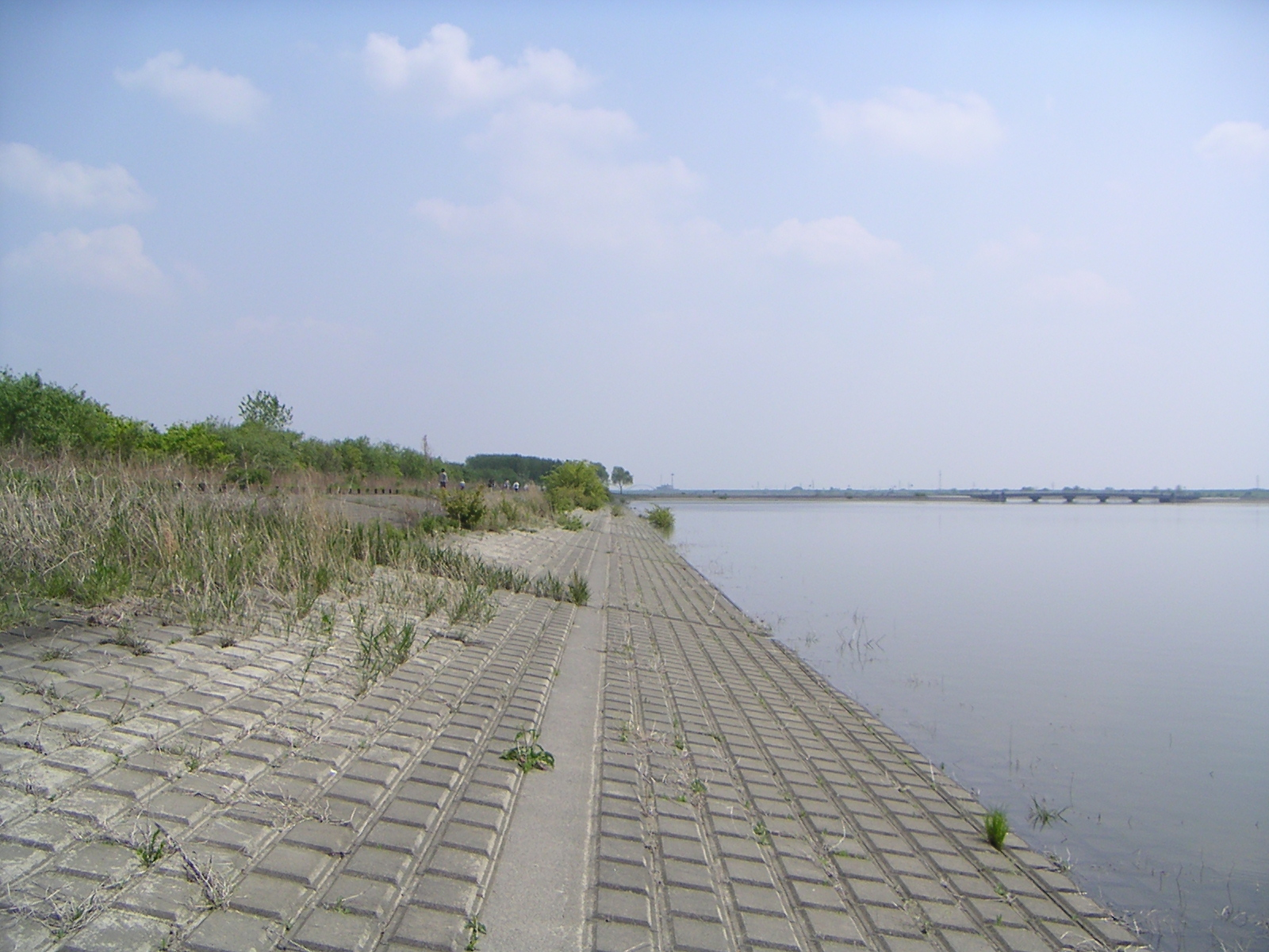 WataraseYusuichi #4